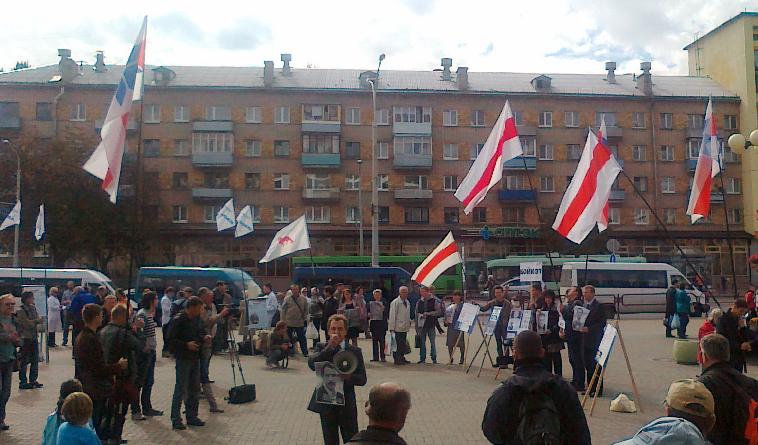 Anatoly Lebedko. Belarusian politician and the head of the United Civil Party of Belarus